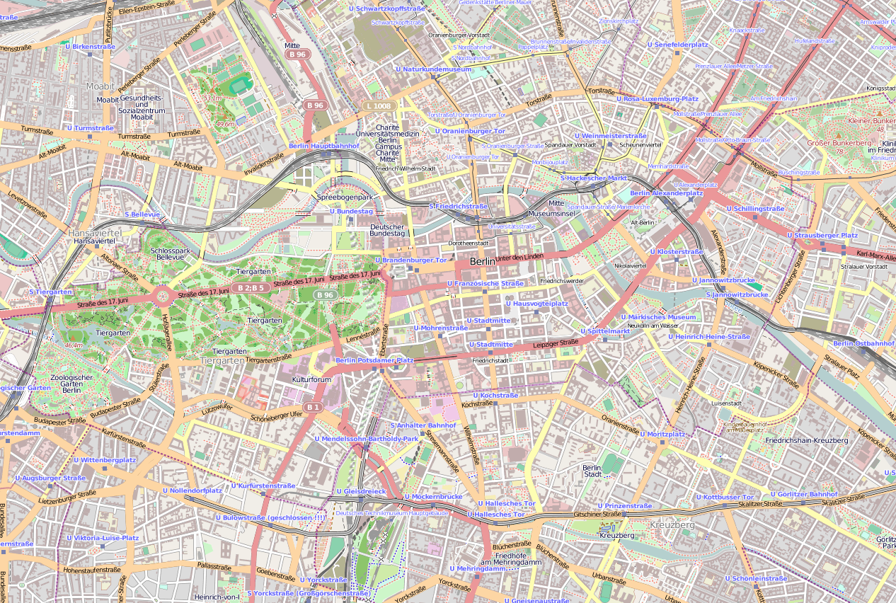 map of Berlin